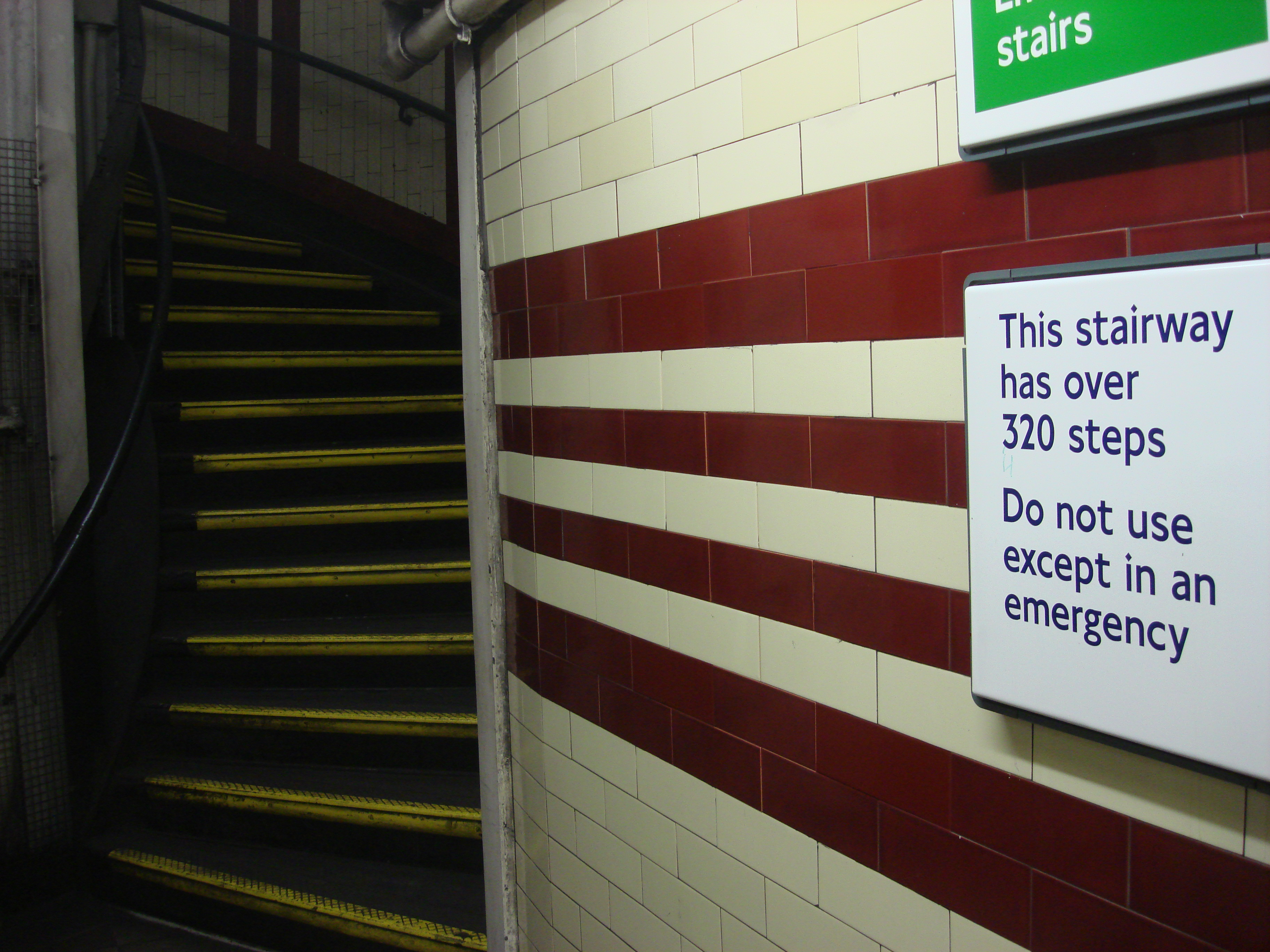 Hampstead tube station